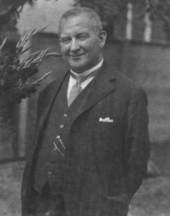 Otto Bracke 1932